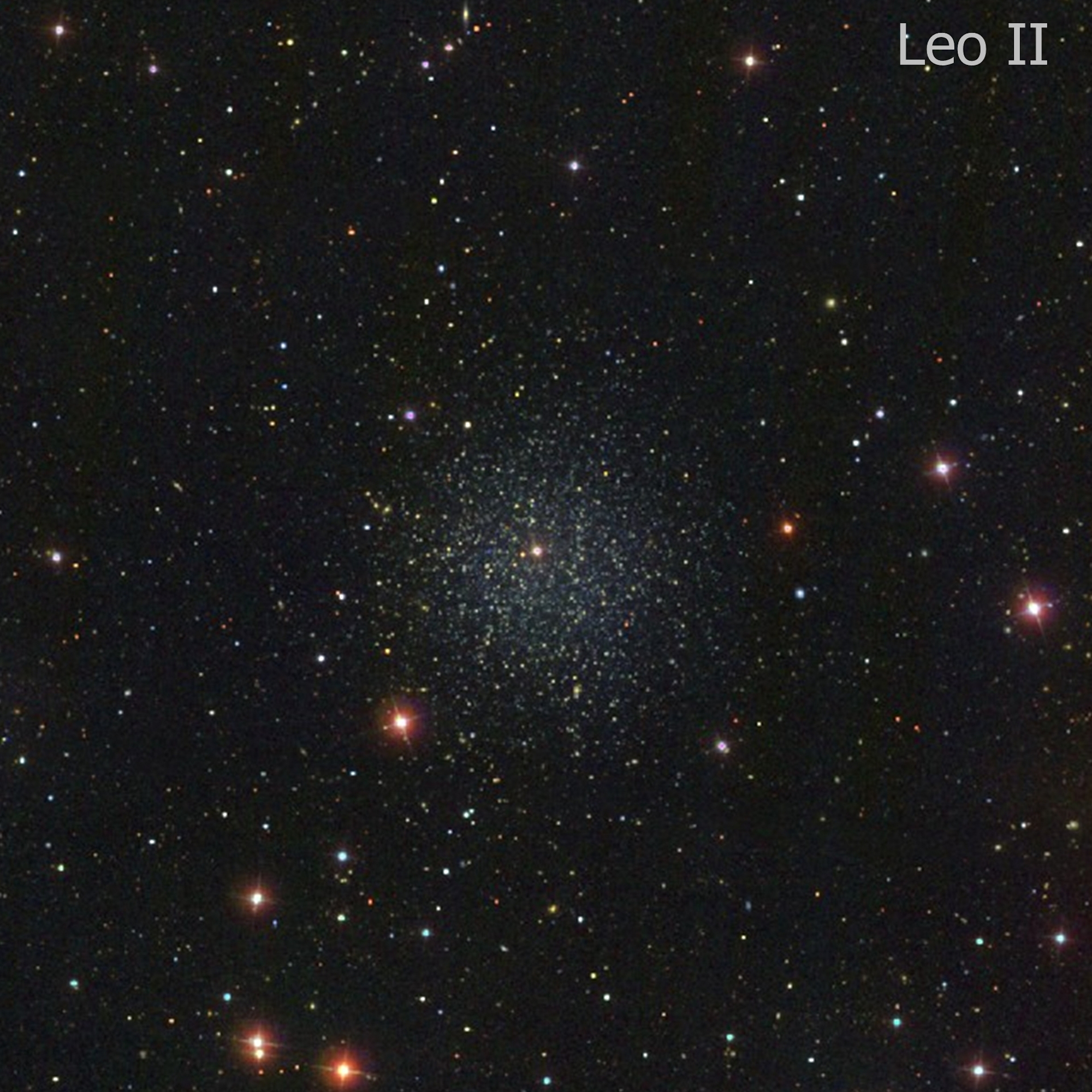 Leo II (Leo B) 11h 13m 29.2s +22° 09′ 17″ Dwarf spheroidal galaxy about 690,000 light-years